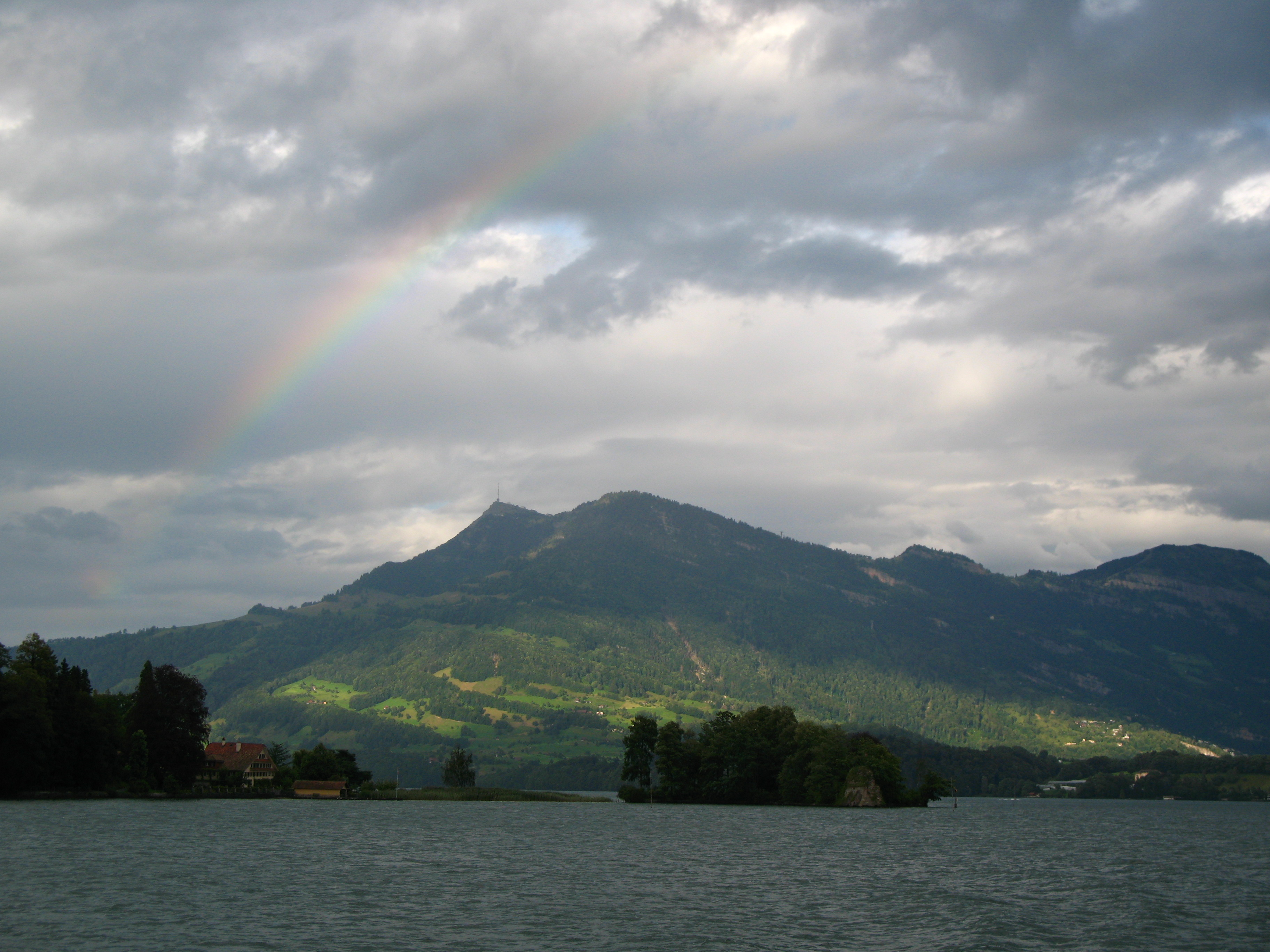 A rainbow over Rigi, Meggen, Switzerland